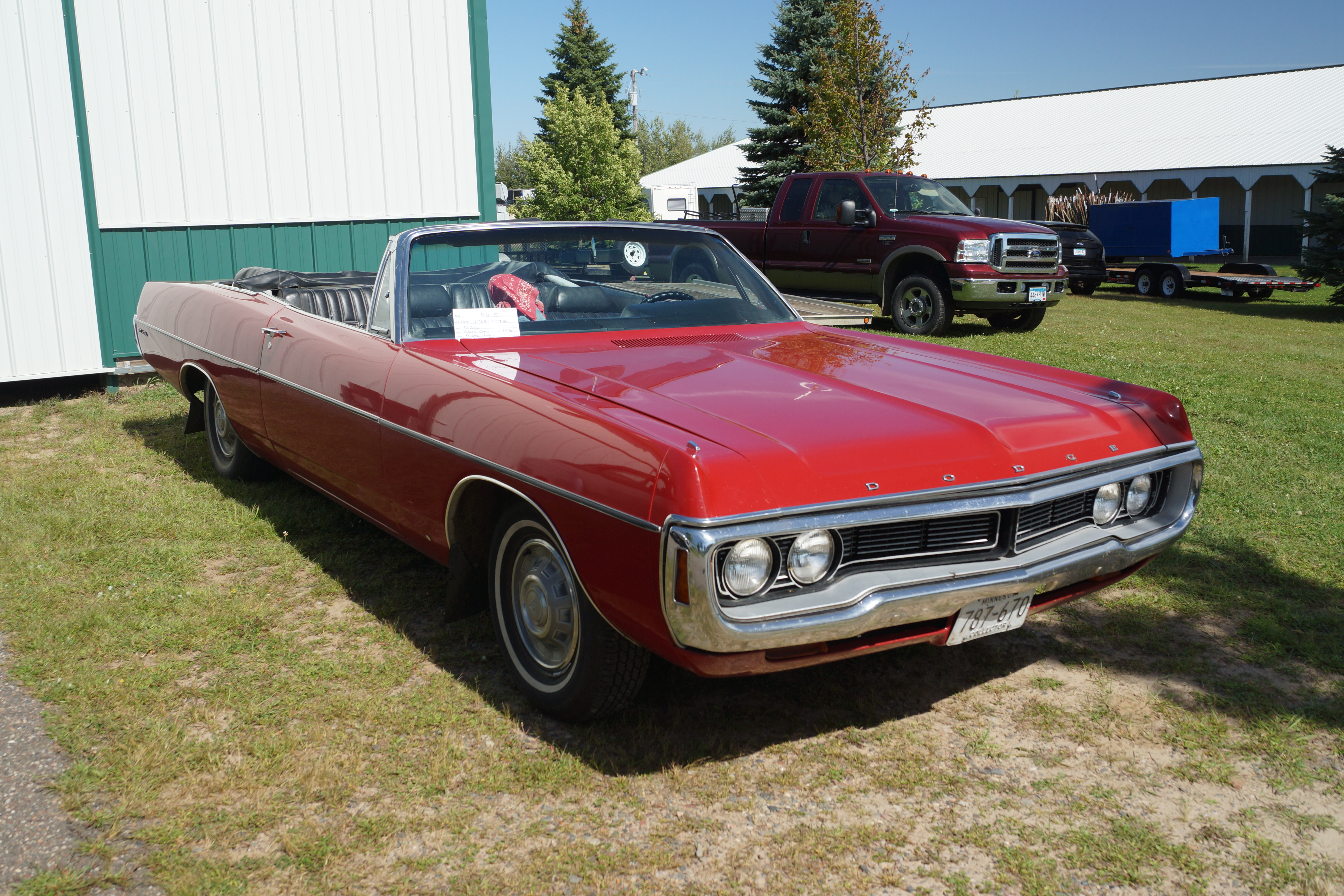 42nd Annual Lone Eagle Auto Club Car Show / Swap Meet Morrison County Fairgrounds Little Falls, Minnesota September 2016 Click here for more car pictures at my Flickr site.